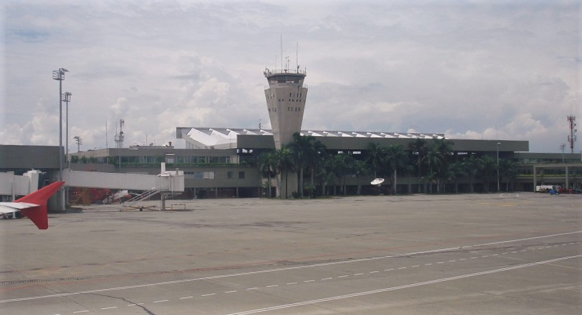 Terminal de pasajeros del aeropuerto Alfonso Bonilla Aragon.